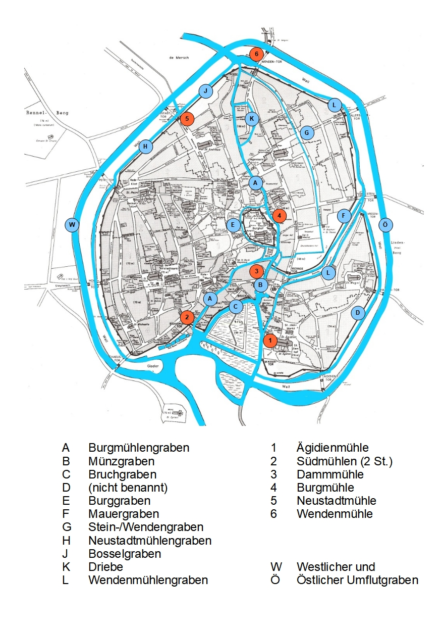 Oker in Brunswick at 1400 with names and mills.